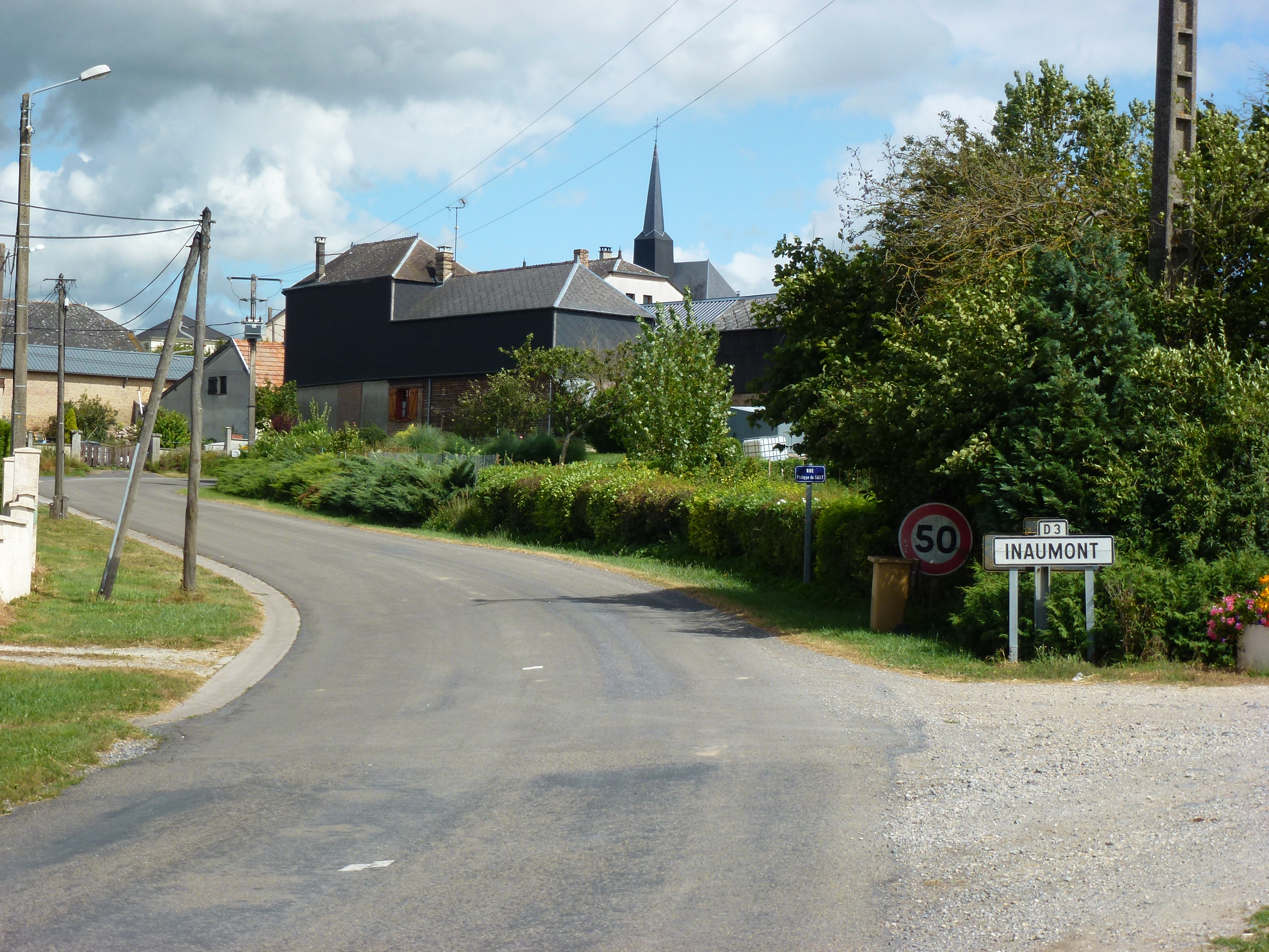 Inaumont (Ardennes) city limit sign